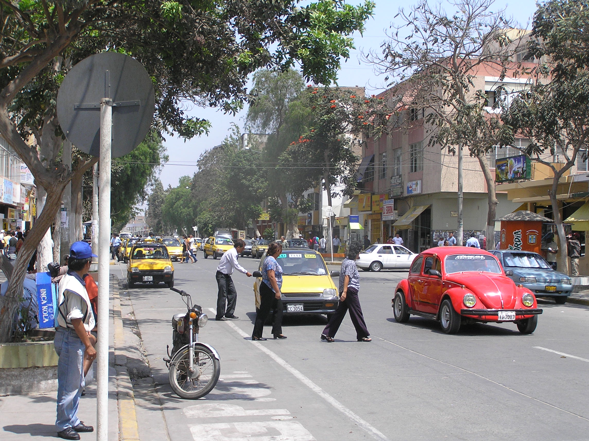 Photo by Jim O'Hagan 1/2/2005. Chiclayo, Peru.